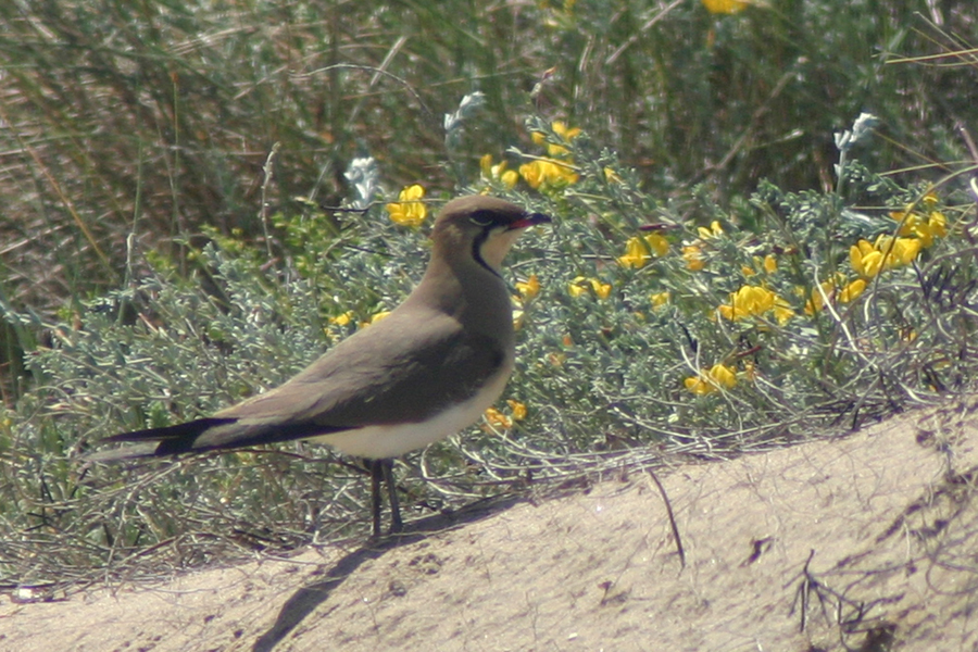 Collared pratincole on a dune in the Ebro Delta (Catalonia).